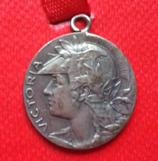 Medalje te dorezuara fituesve ne garat e notit 1931-1938